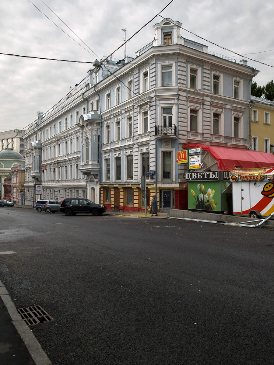 Bolshaya Dmitrovka St., Moscow, corner of Kamergersky Lane (to the right).